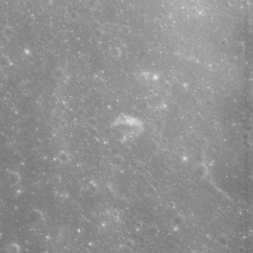 Slightly oblique view of Donna crater, at the summit of the lunar dome Omega Couchy within Mare Tranquillitatis, on the moon. High sun angle obscures the low relief of the lunar dome. Taken by Apollo 15 panoramic camera.